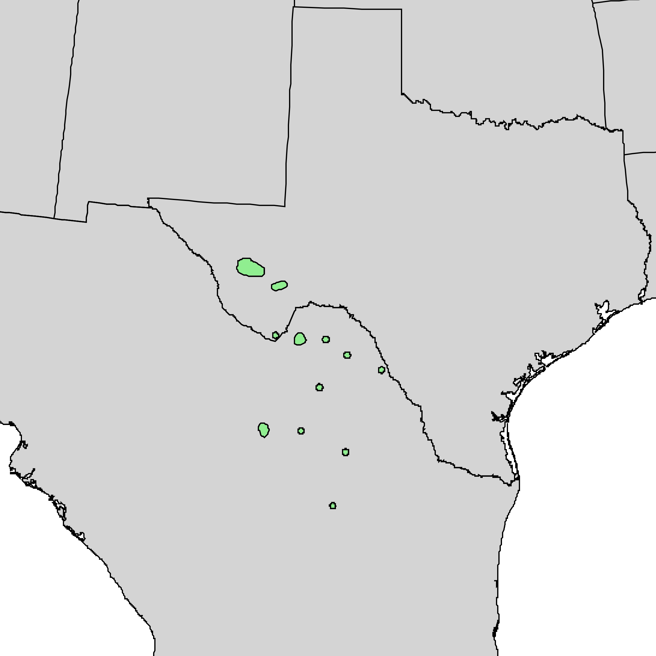 Natural distribution map for Quercus gravesii